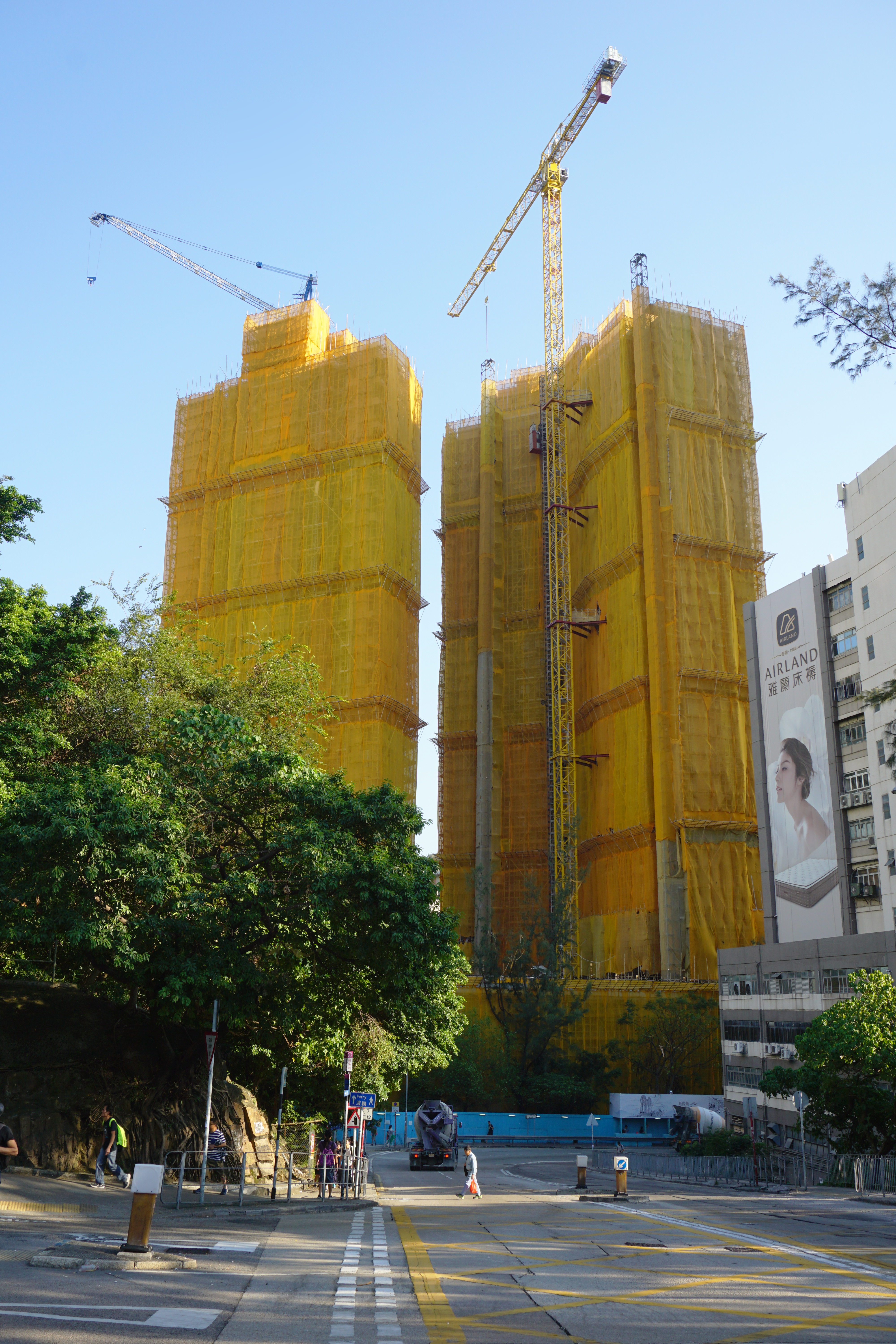 One East Coast in Yau Tong, Hong Kong.